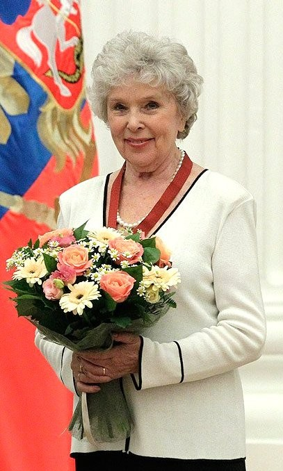 Vasilieva